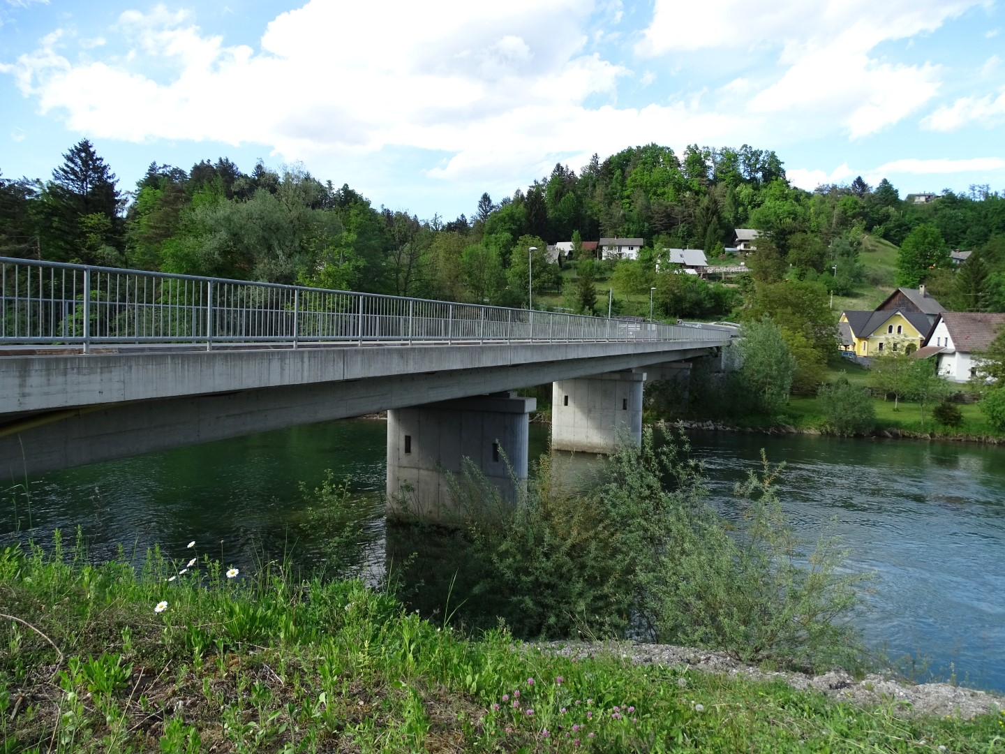 Bridge across the river Sava in Lancovo